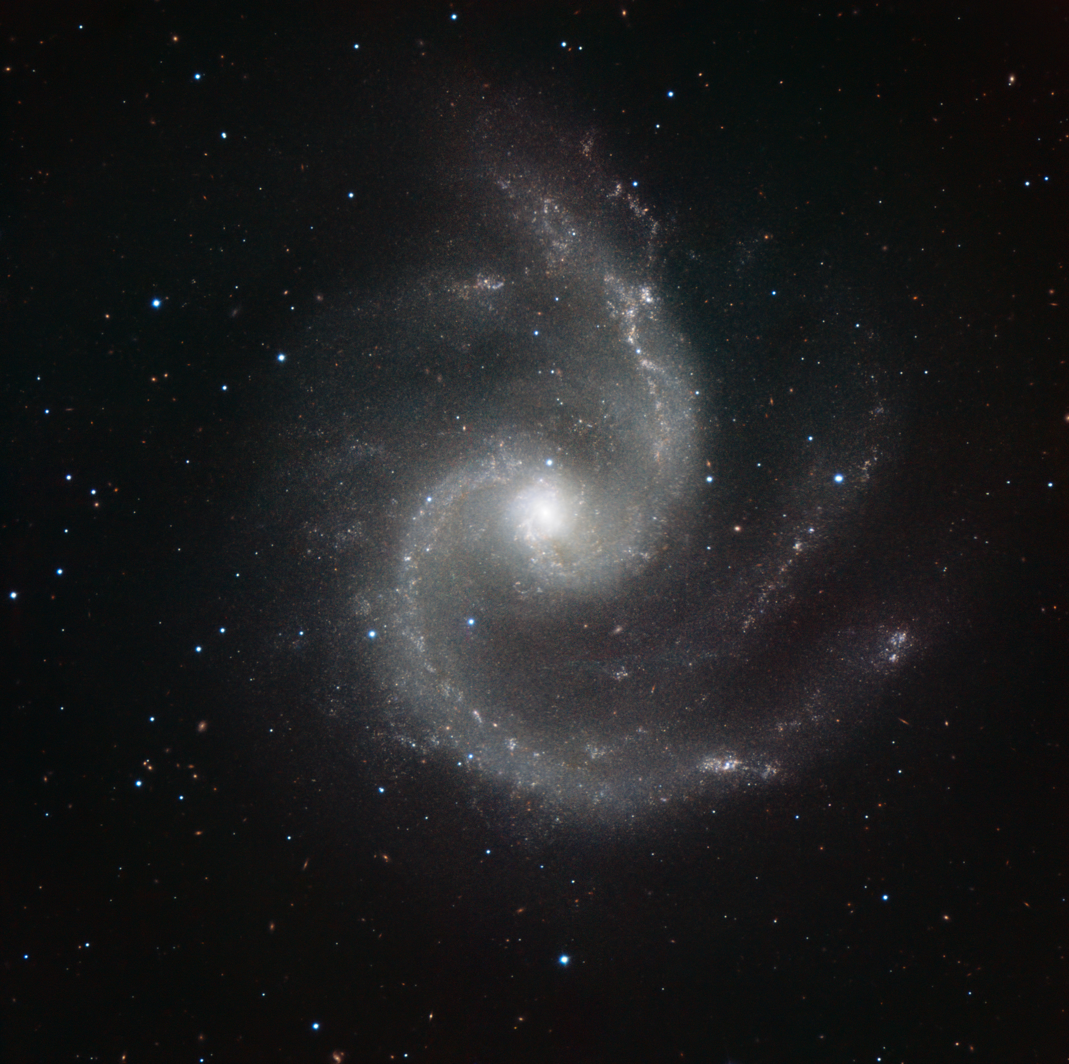 This image shows NGC 5247, a grand design barred spiral galaxy, located 60–70 million light-years away. The galaxy lies face-on towards Earth, thus providing an excellent view of its pinwheel structure and multiple arms. It is in the zodiacal constellation of Virgo (the Maiden). The image was made in infrared light with the HAWK-I camera on ESO’s Very Large Telescope at Paranal Observatory in Chile. HAWK-I is one of the most powerful infrared imagers in the world, and this is one of the sharpest and most detailed pictures of this galaxy ever taken from Earth. The filters used were Y (shown here in blue), J (in light blue), H (in green), and K (in red). The field of view of the image is about 6.4 arcminutes.